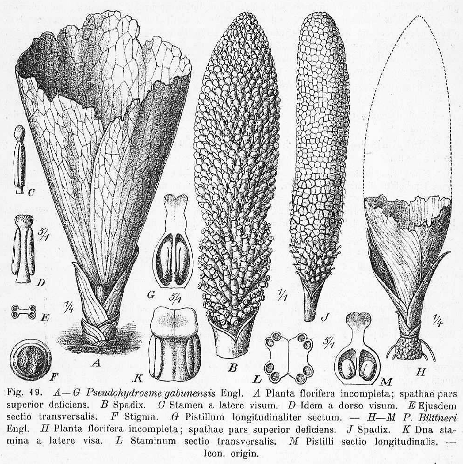 Pseudohydrosme gabunensis botanical drawing of Adolf Engler